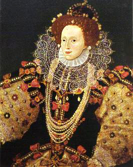 Elizabeth I of England 07:21, 15 August 2002 Isis 265x333 (25286 bytes) (elizabeth i of england)